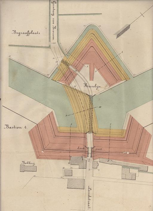 Map of Delfzijl